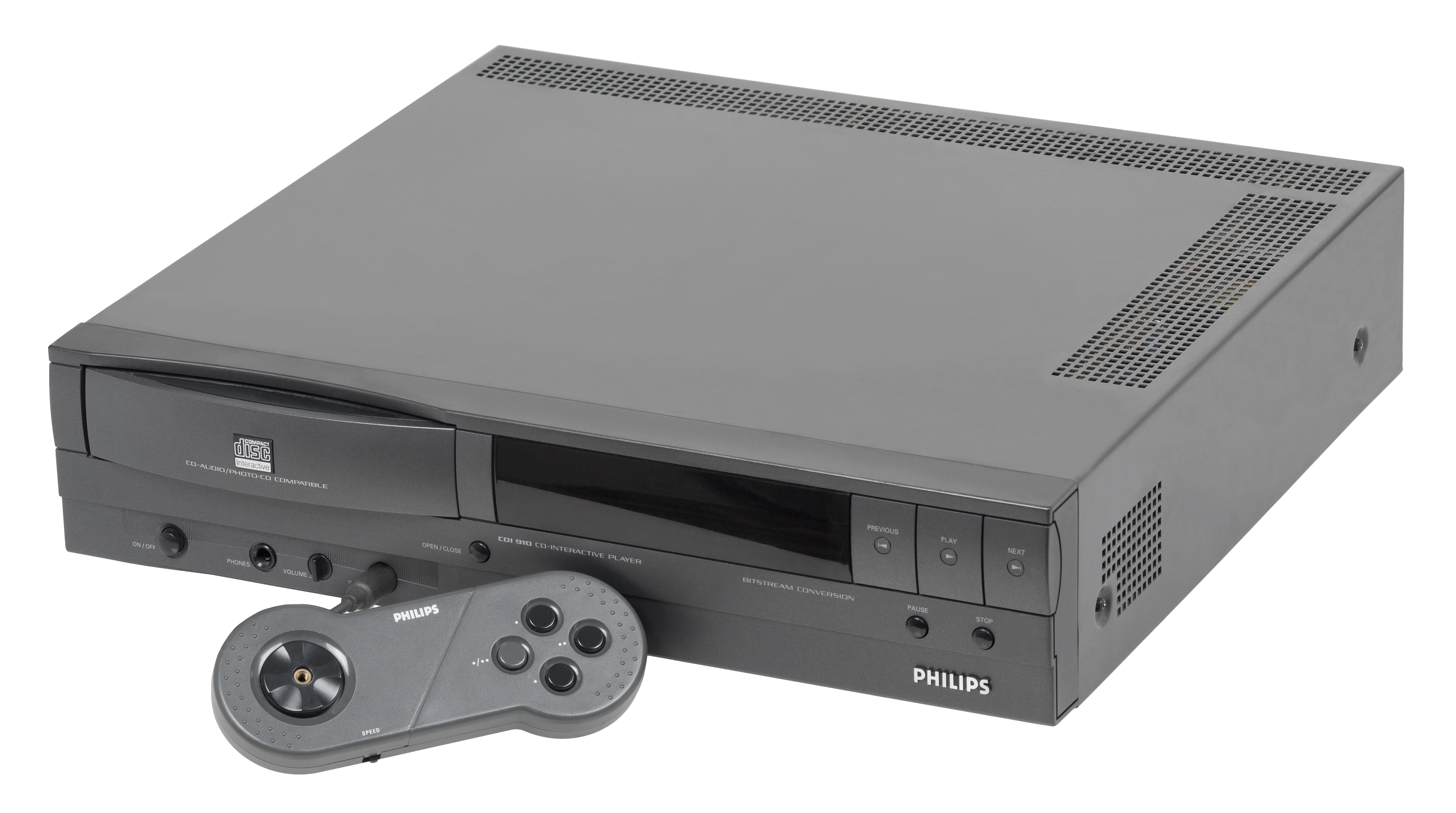 A Philips CD-i 910 video game console, shown with controller.